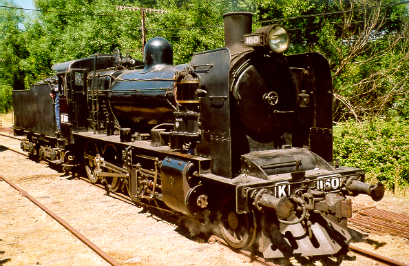 "K" class steam locomotive K160 heads for the Castlemaine turntable, 19th December 2004 Photo by ZZRBiker